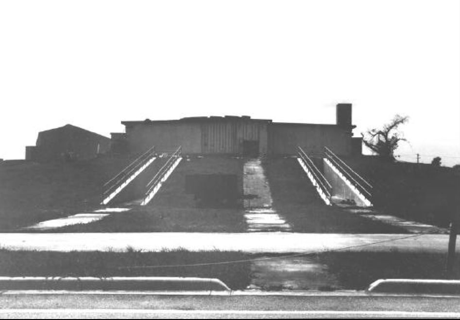 100-man molehole at the former Homestead Air Force Base